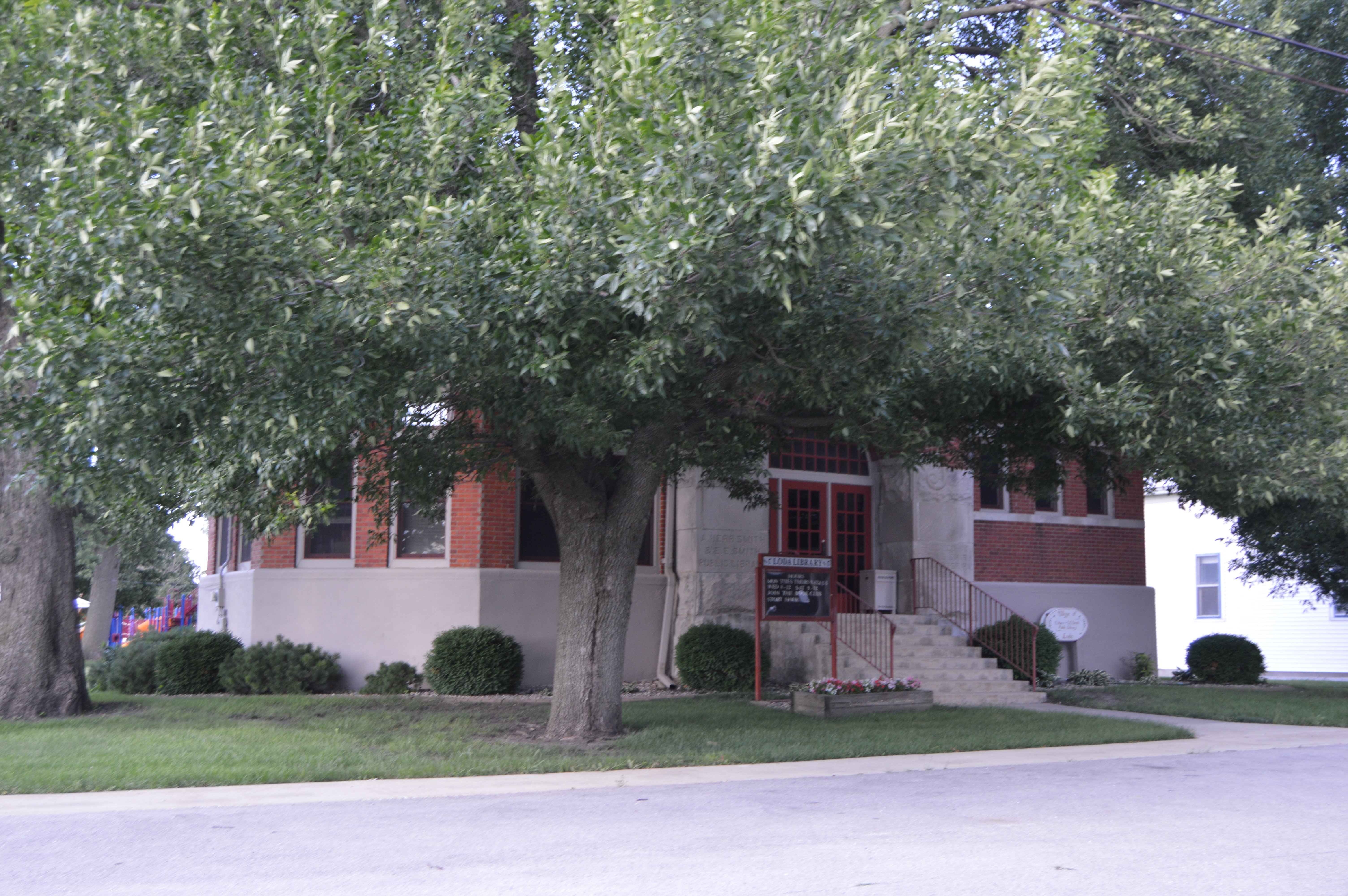 Front and western side of the A. Herr and E.E. Smith Public Library, located at 105 S. First Street in Loda, Illinois, United States. Built in 1897, it is listed on the National Register of Historic Places.